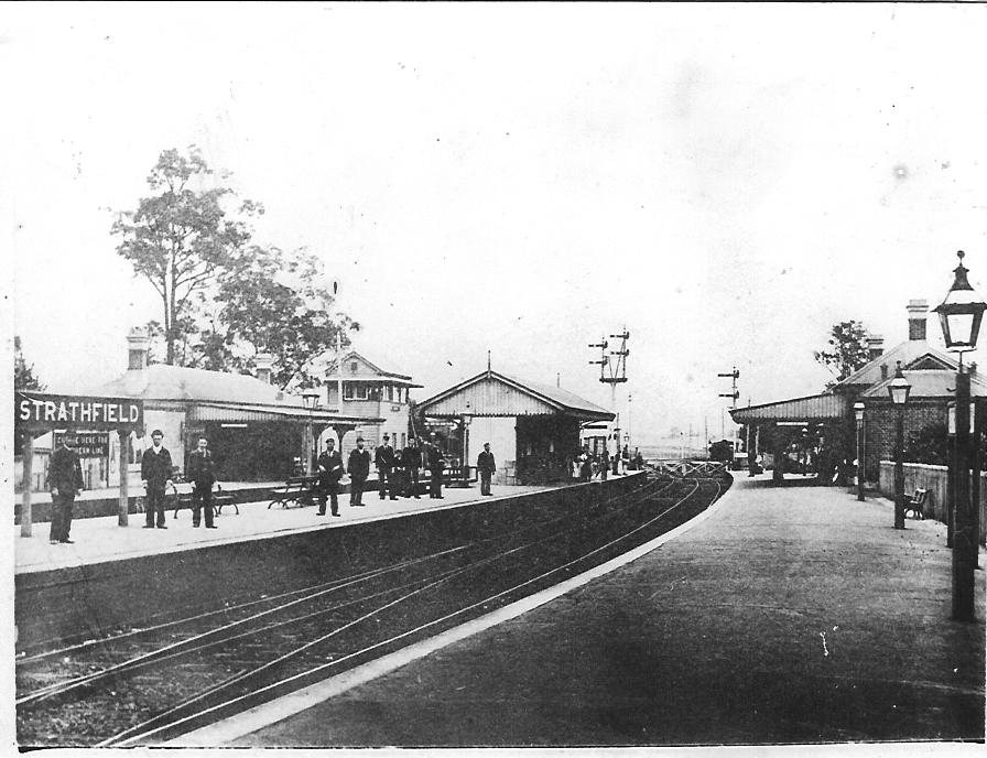 Strathfield station sometime between 1886 and 1927.